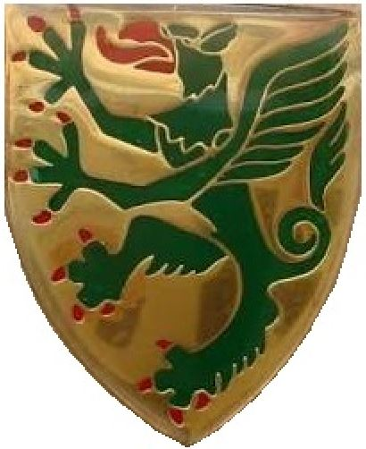 SADF Regiment Langenhoven emblem